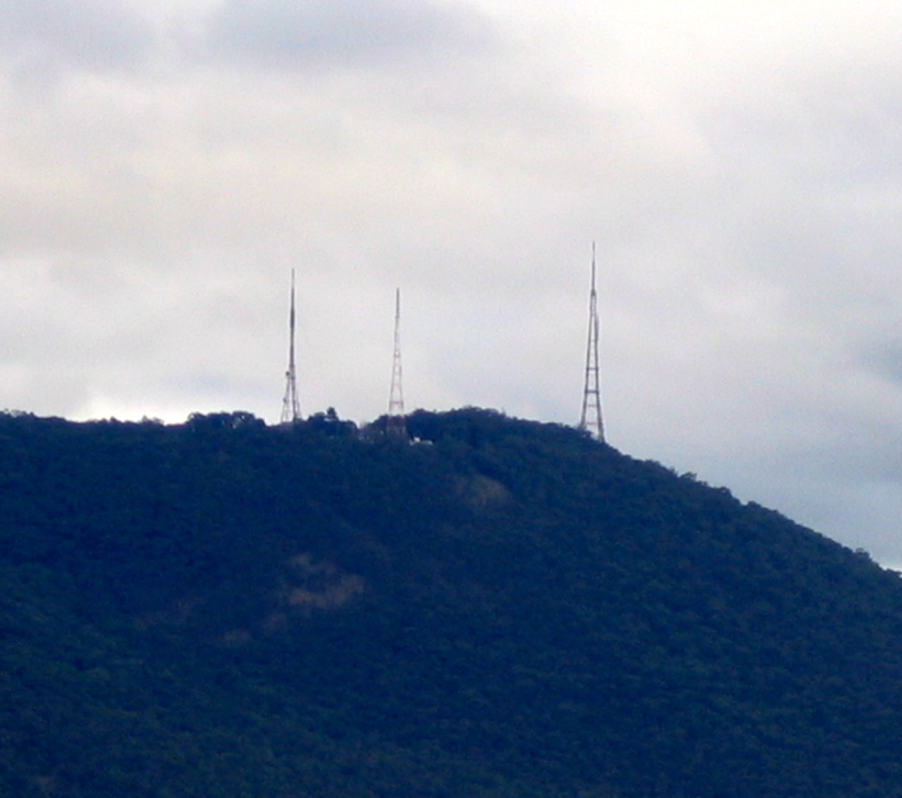 Close up view of The Towers atop Mt Dandenong. By Andrew Amos (Skyscraper297) 26 July 2005